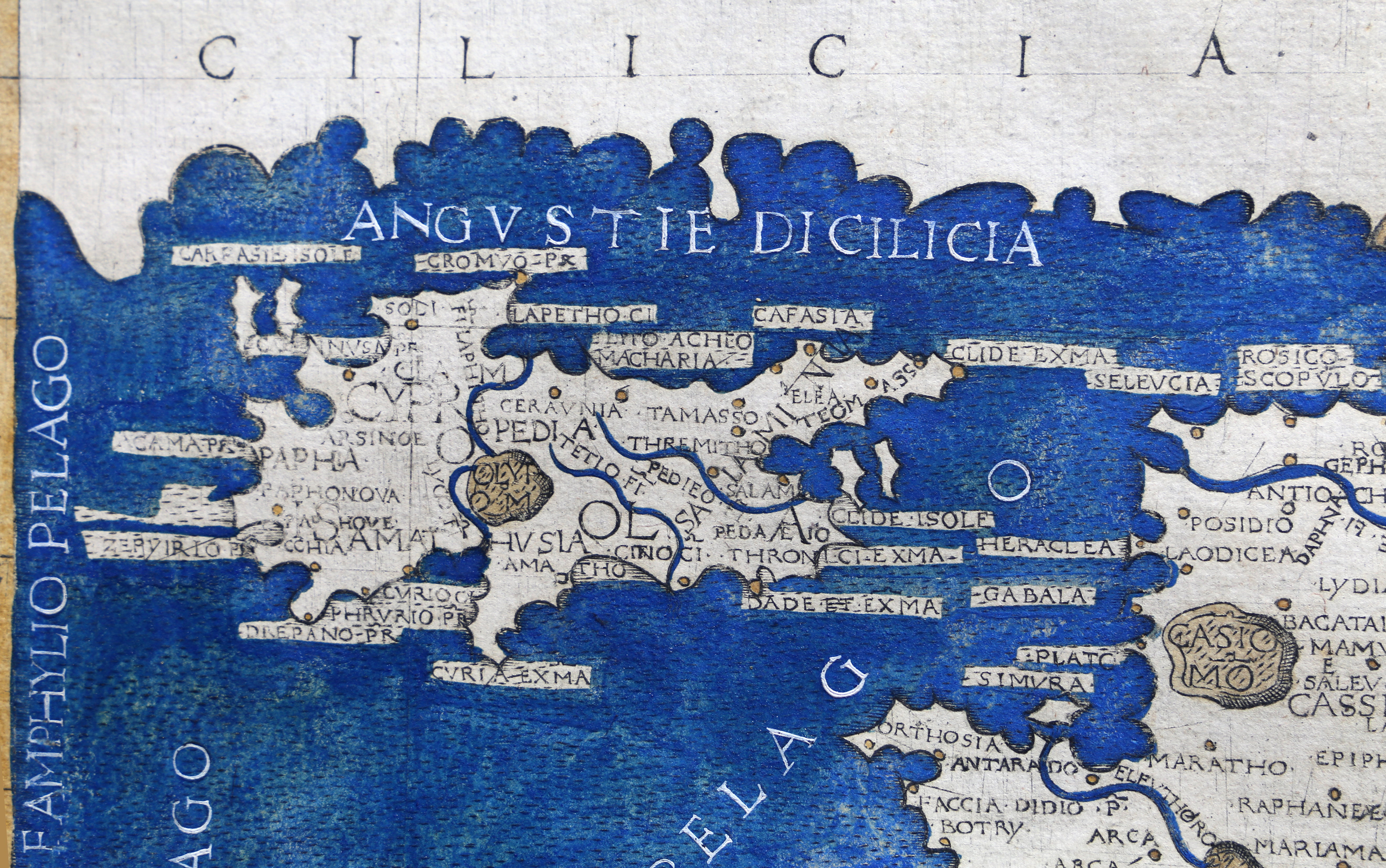 Geographia by Francesco Berlinghieri (Crusca)